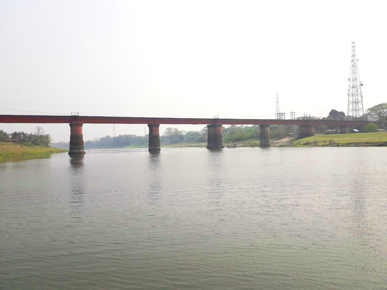 Mymensingh Rail Bridge On the Brahmaputra river. This is so much historically a bridge in Bangladesh.